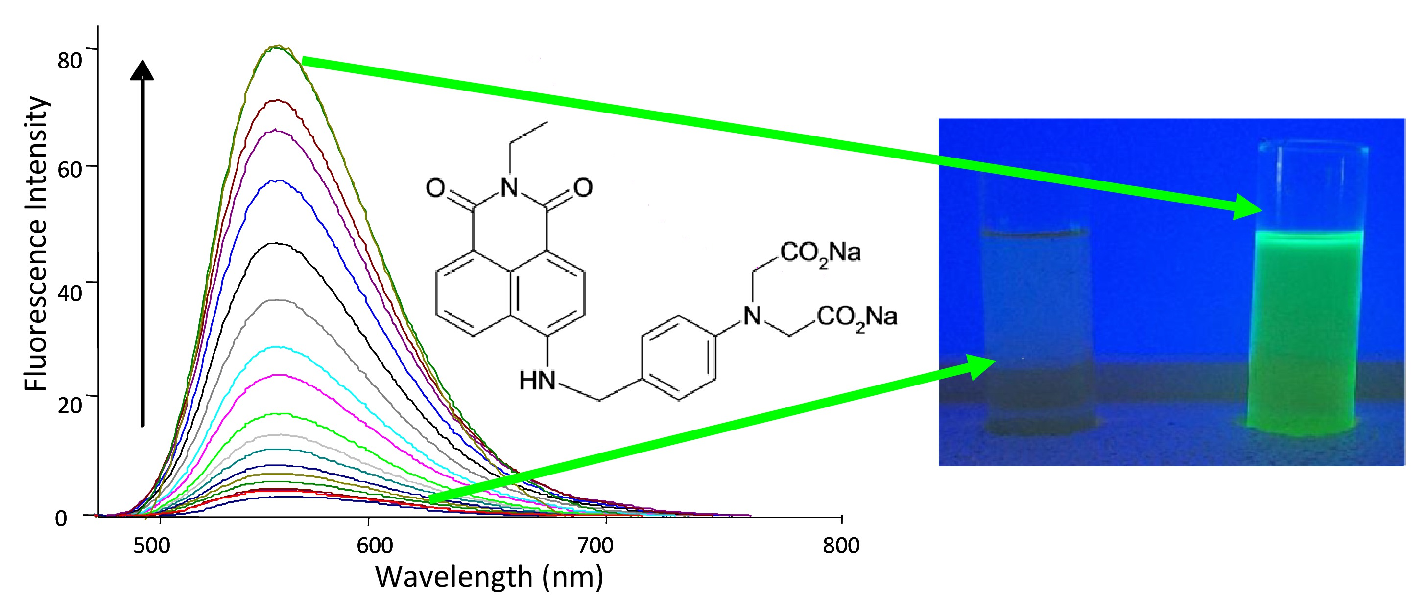 For use on Molecular sensor